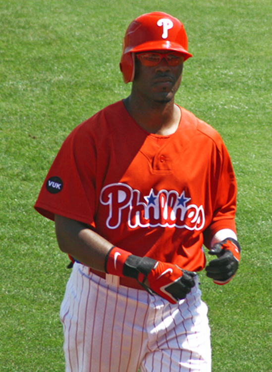 Photograph taken by Googie Man 00:44, 1 October 2007 . . Googie man . . 549×750 (393 KB)